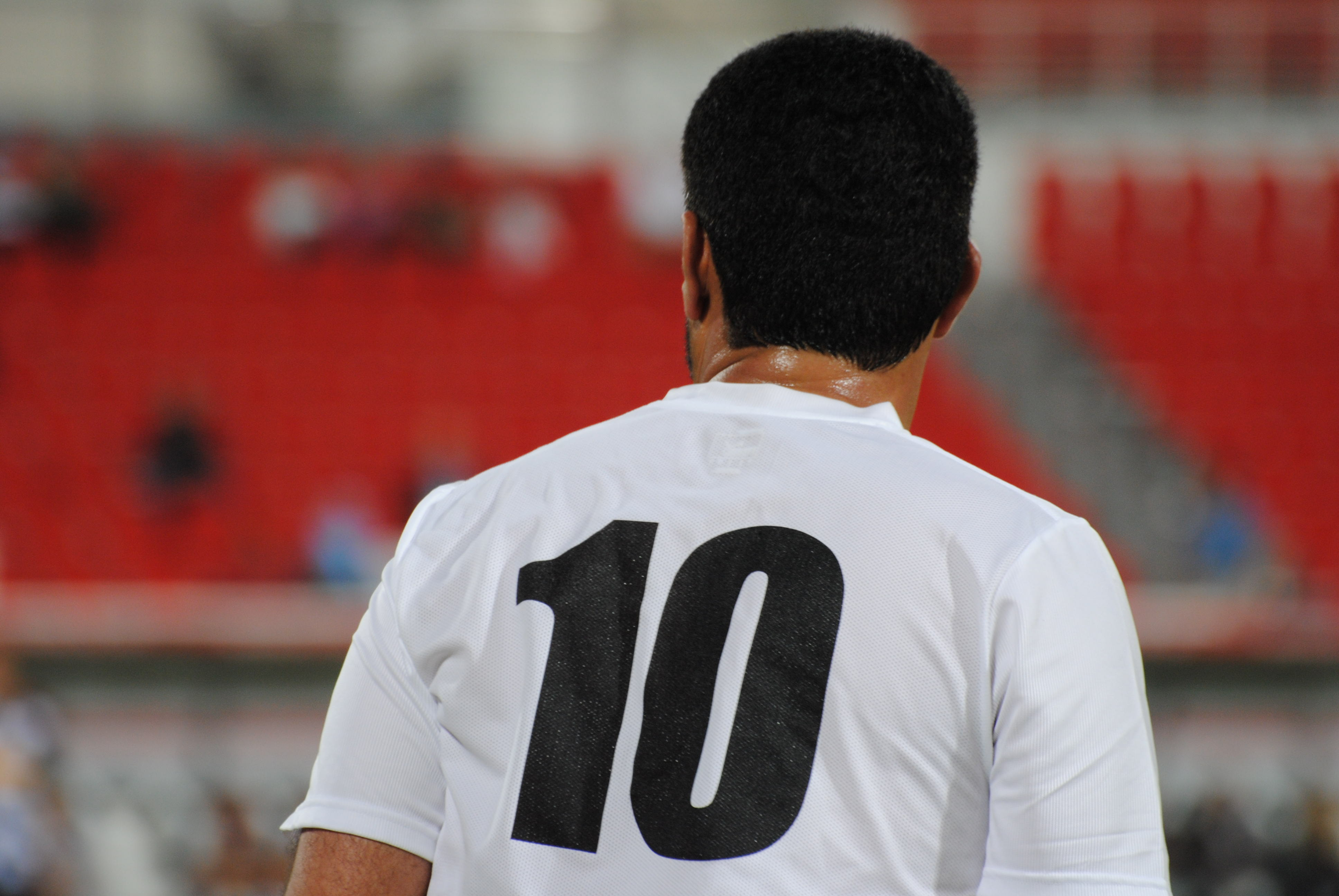 Adnan Al talyani soccer player back side